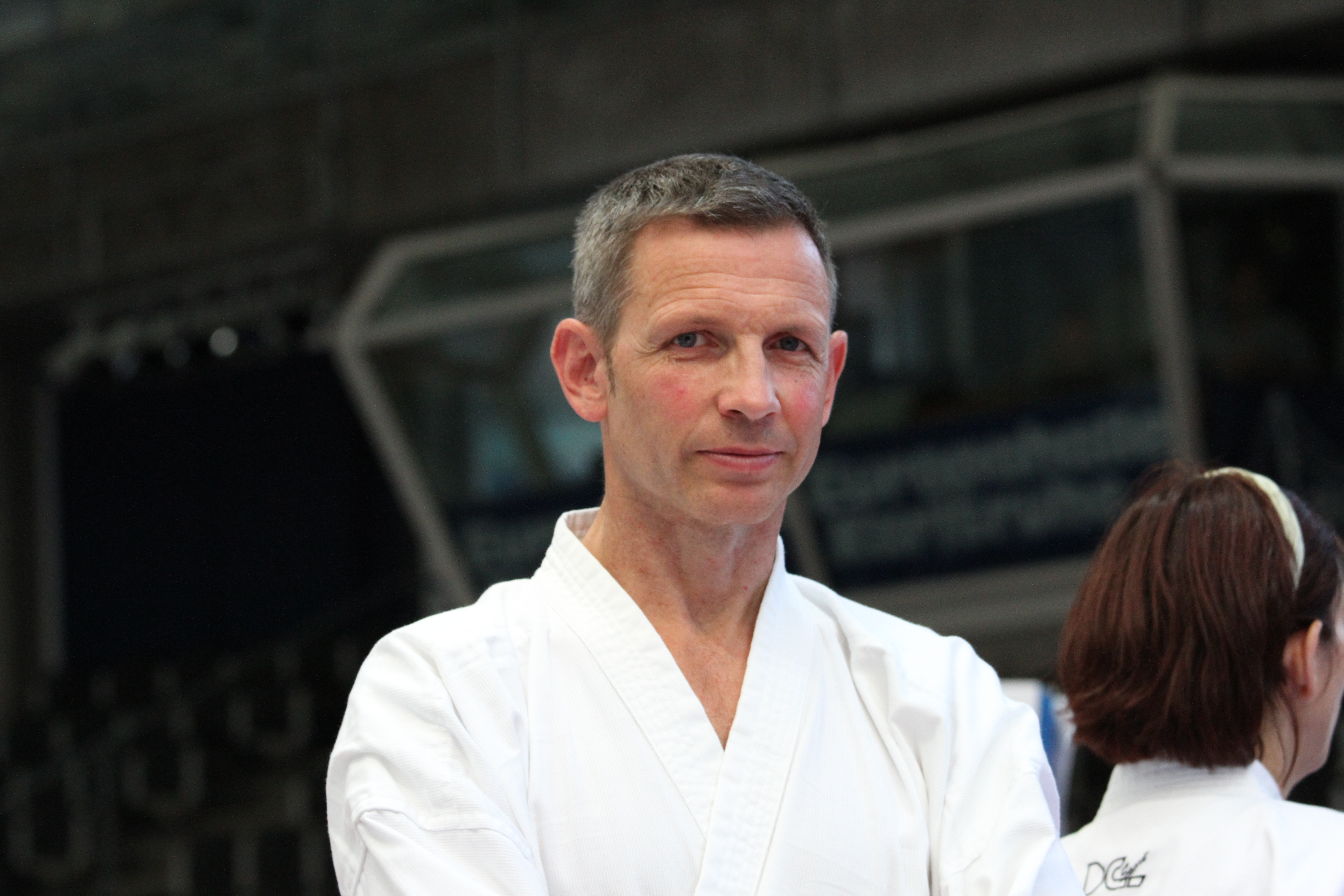 WKA World Champion Karate 2011